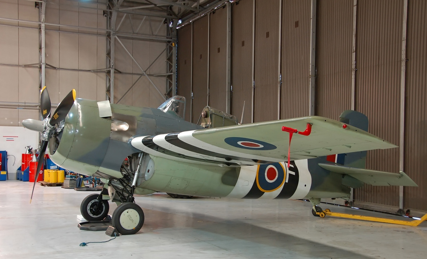 A Grumman Martlet/Wildcat at the Imperial War Museum, Duxford, photographed by Robin Stevens on 26 May 2007.